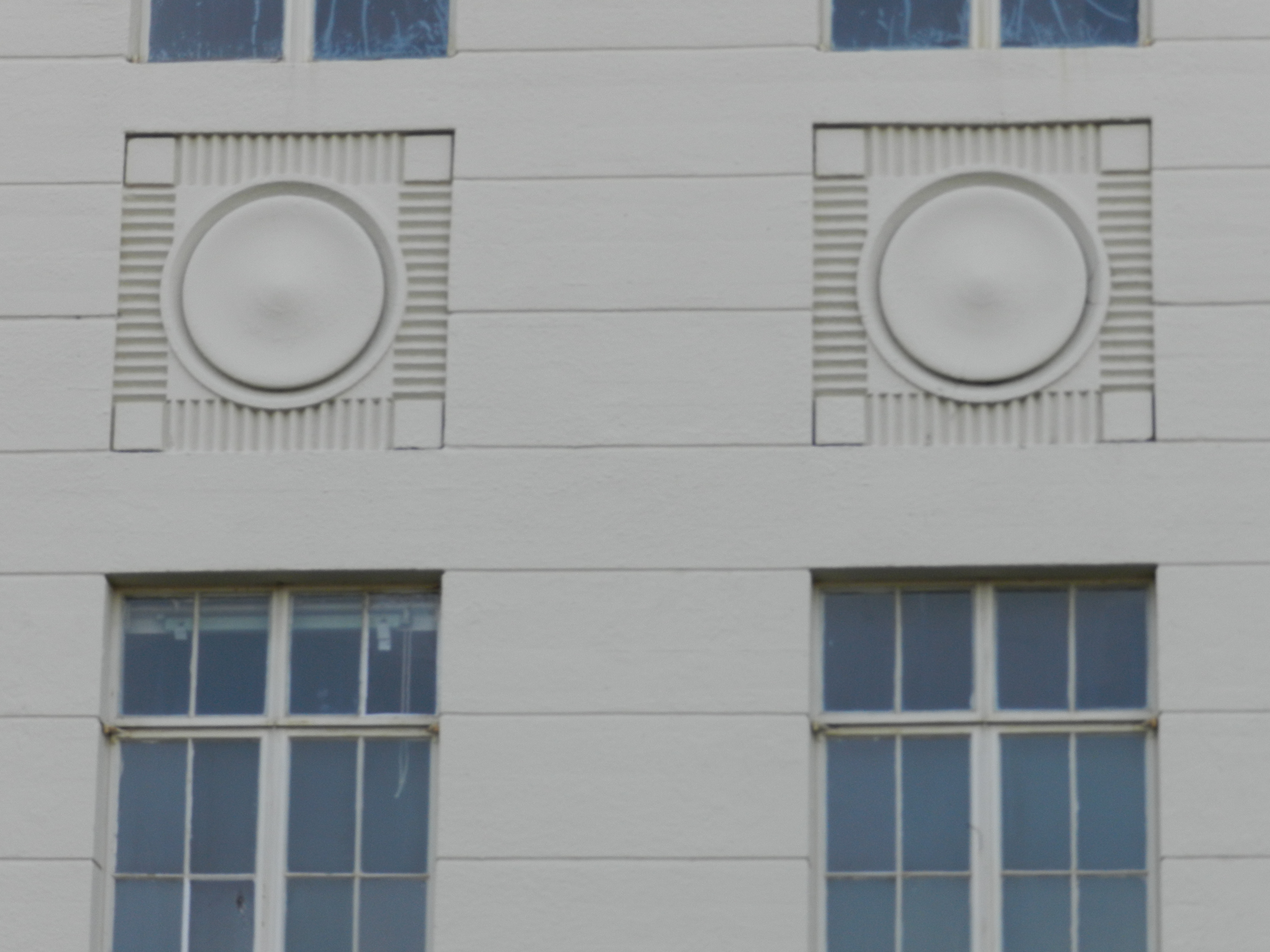 Motif from the first Hayward City Hall, showing a circle in square that was used later for the new City of Hayward logo